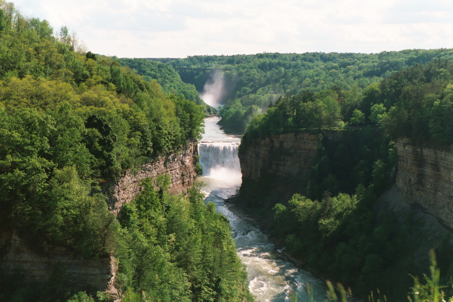 Letchwork State Park, New York Middle Falls of the Genesee River, seen from the North